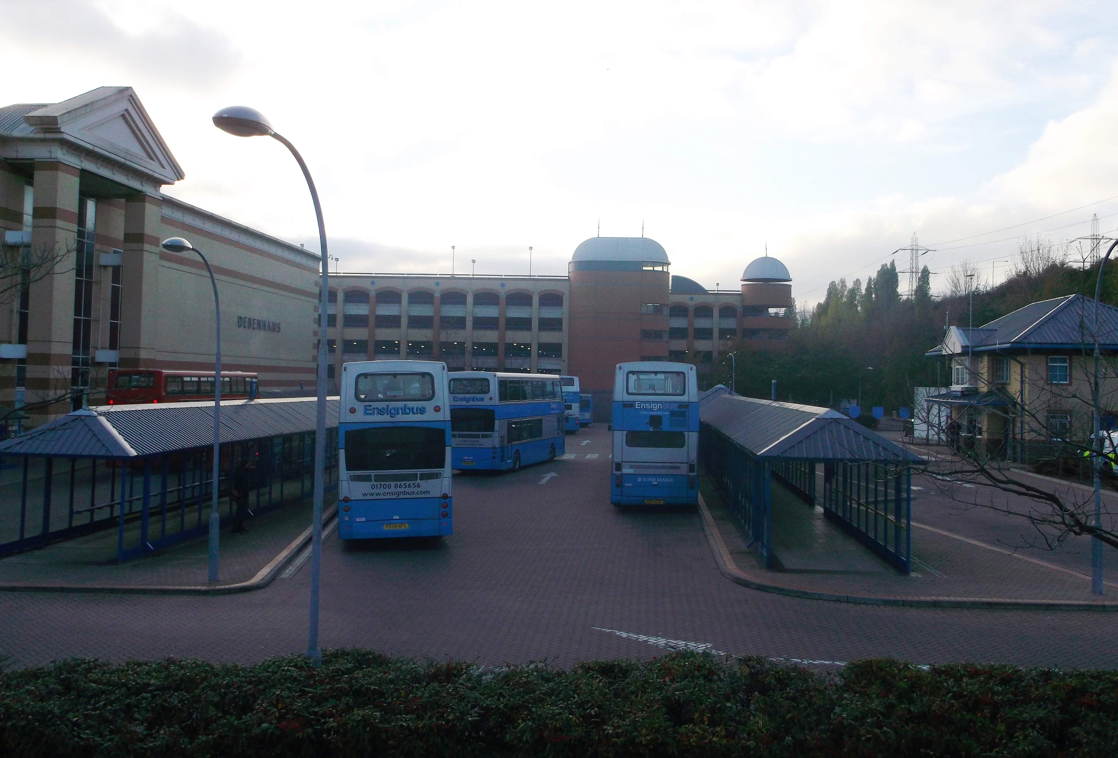 Bus Station, Lakeside Shopping Centre (2). This bus station is near Debenhams (one of the core stores of the shopping centre). As seen from the car park near Debenhams. On the right is a bus drivers shelter/office.